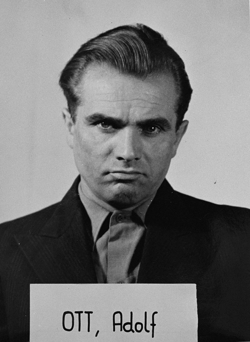 Adolf Ott (1904-?), German SS-Officer of the Einsatzgruppen killing squads. This photograph of Ott was taken by US Army photographers on behalf of the Office of Chief of Counsel for War Crimes (OCCWC) during Nuremberg Trial IX (Einsatzgruppen Trial / Einsatzgruppen-Prozess).